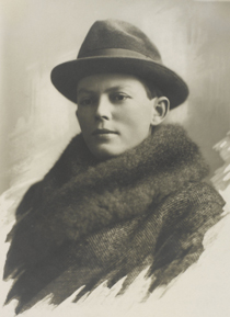 Hermod Lars Skræntskov Lannung (1895-1996), Danish politician, MP. Photograph from Russia. Royal Danish Library